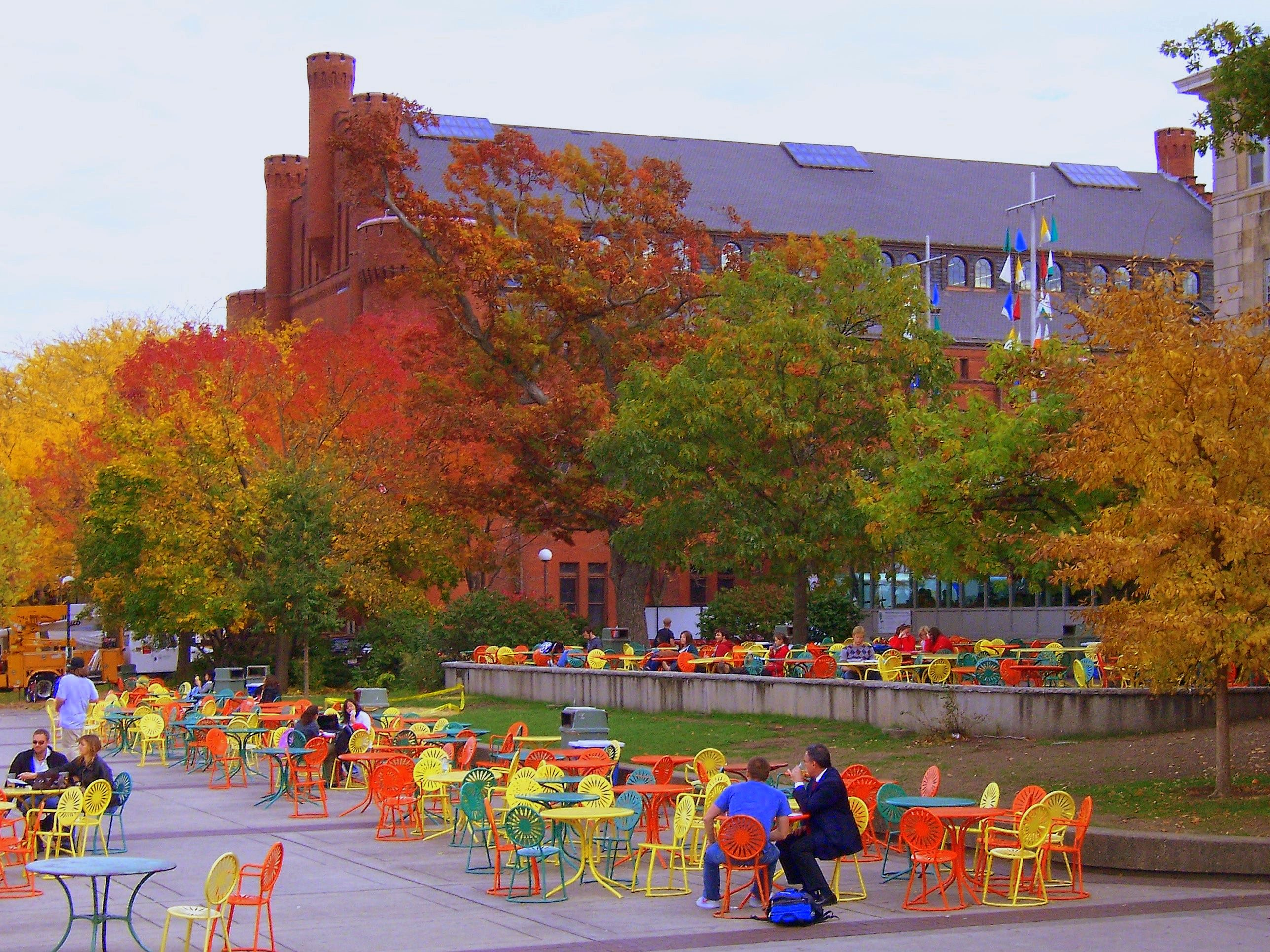 This is a picture of the Red Gym as seen from the Memorial Union Terrace taken in the fall of 2008 on the University of Wisconsin - Madison campus.